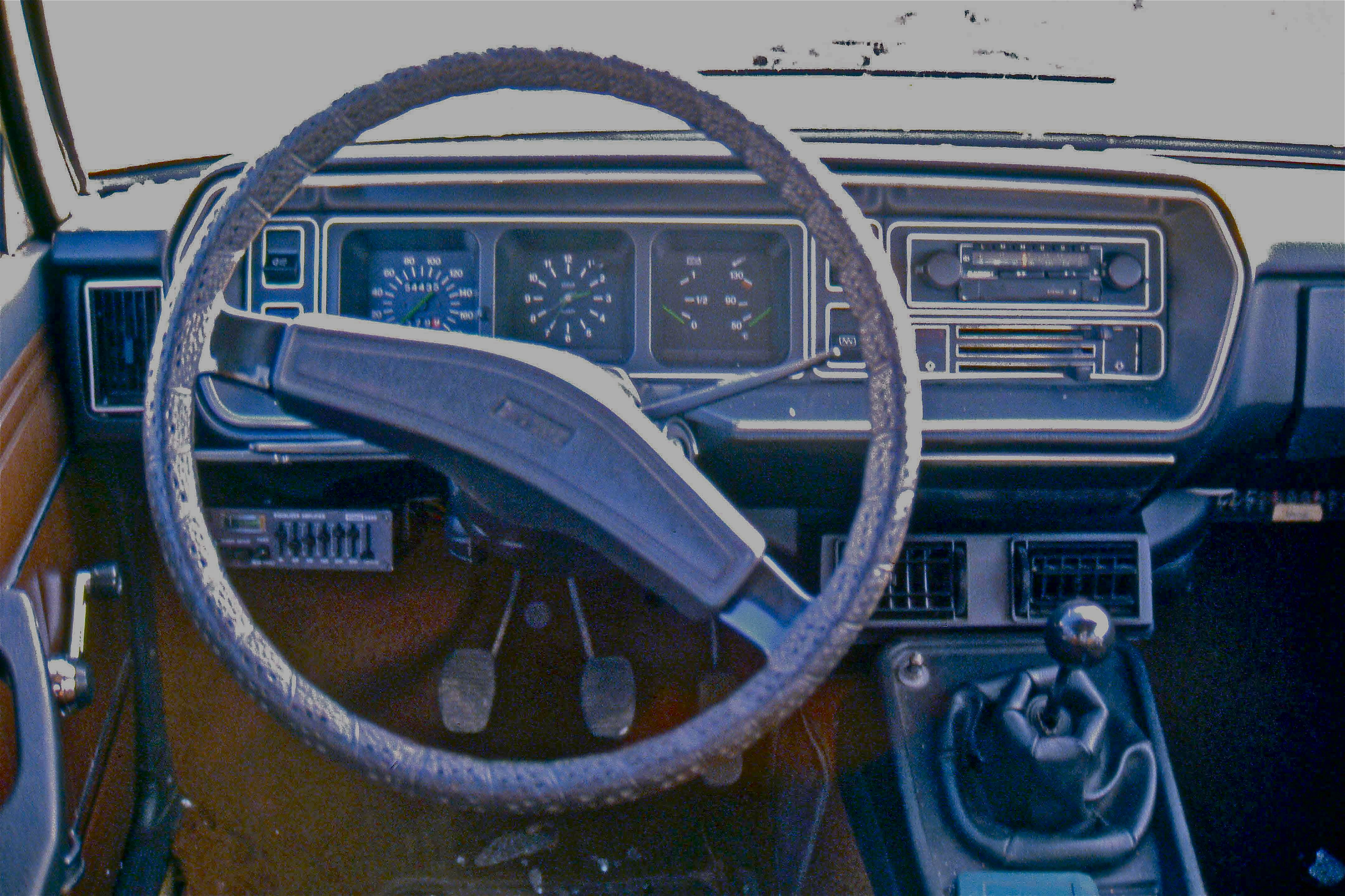 Dashboard Fiat 131 1st series.